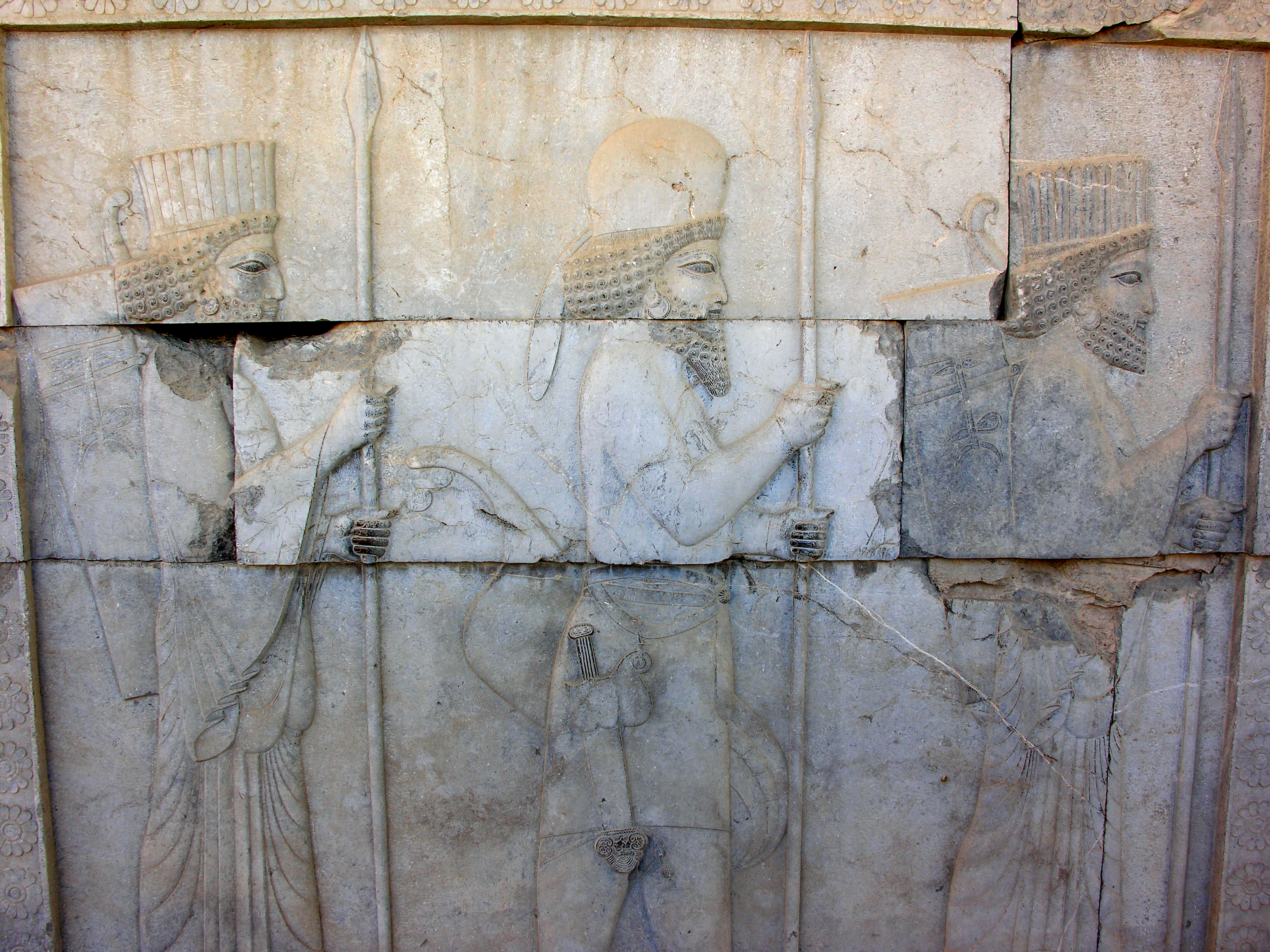 Iran, Stairway to the Apadana